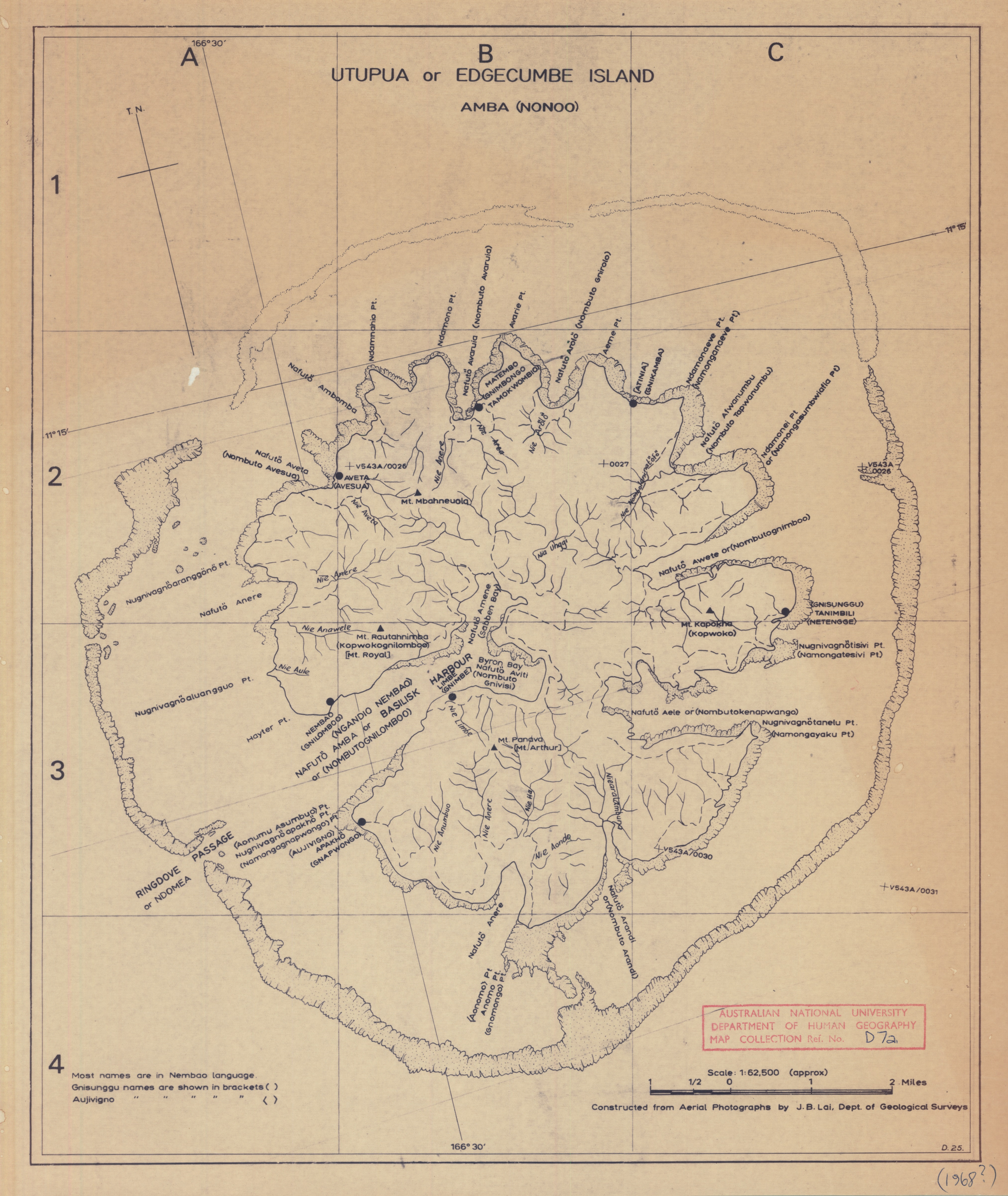 1968 map of Utupua Island, Temotu Province, Solomon Islands, Melanesia, South Pacific Ocean